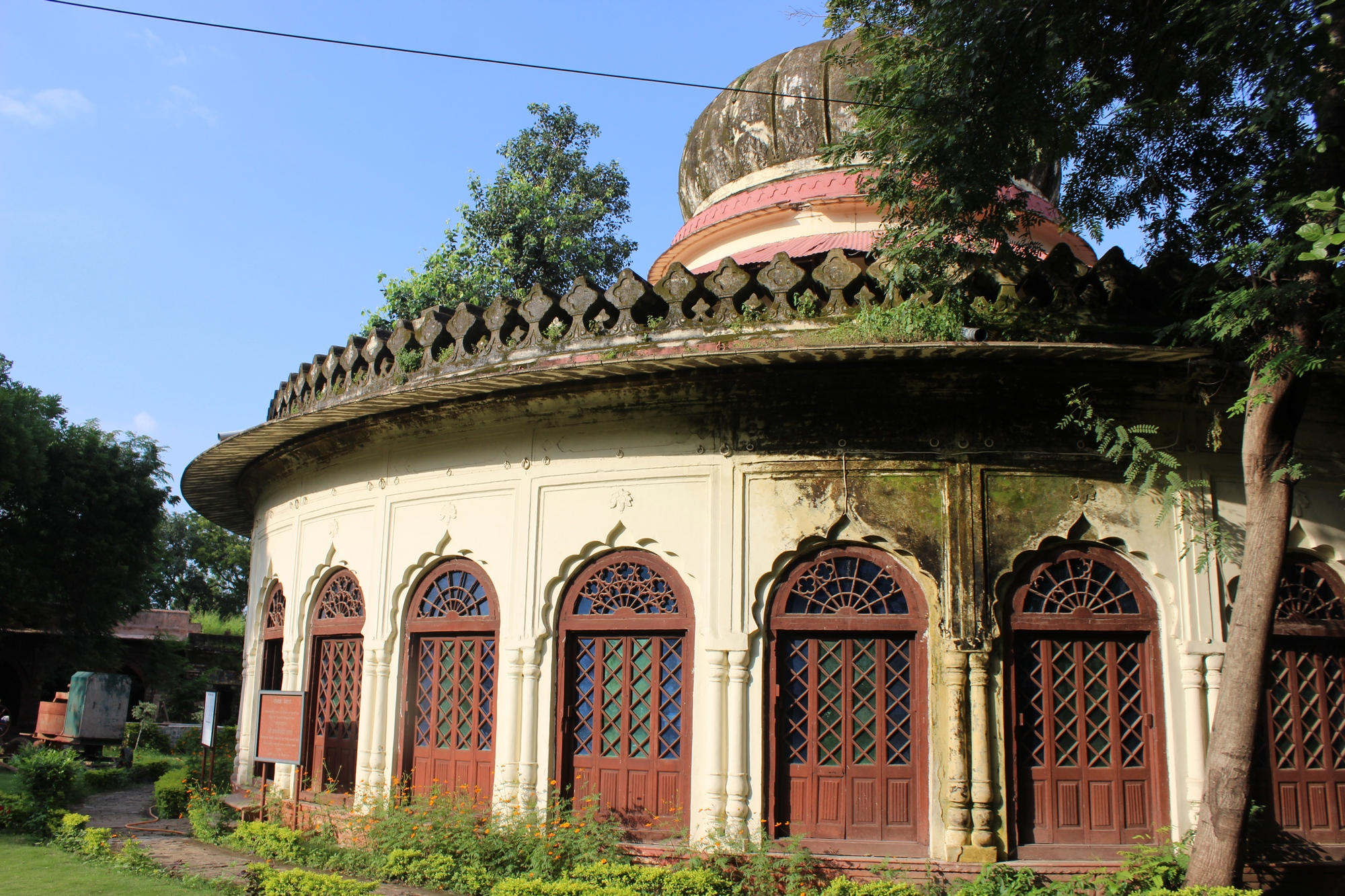 Golghar